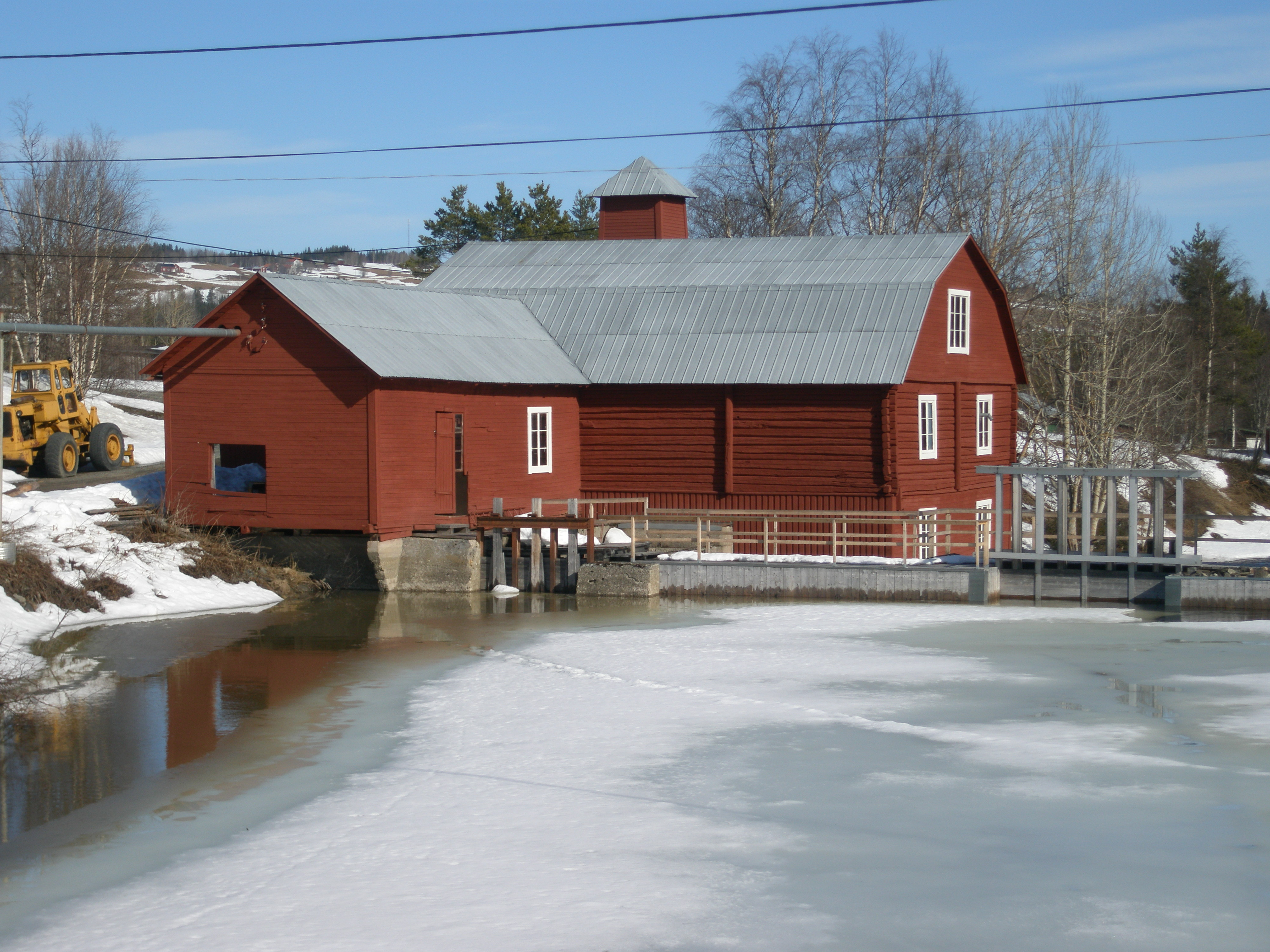 Åflo, Offerdal, Krokom, Jämtland, Sweden.